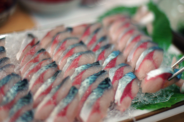 Korean food of Jeju Island, Korea in July, 2008.